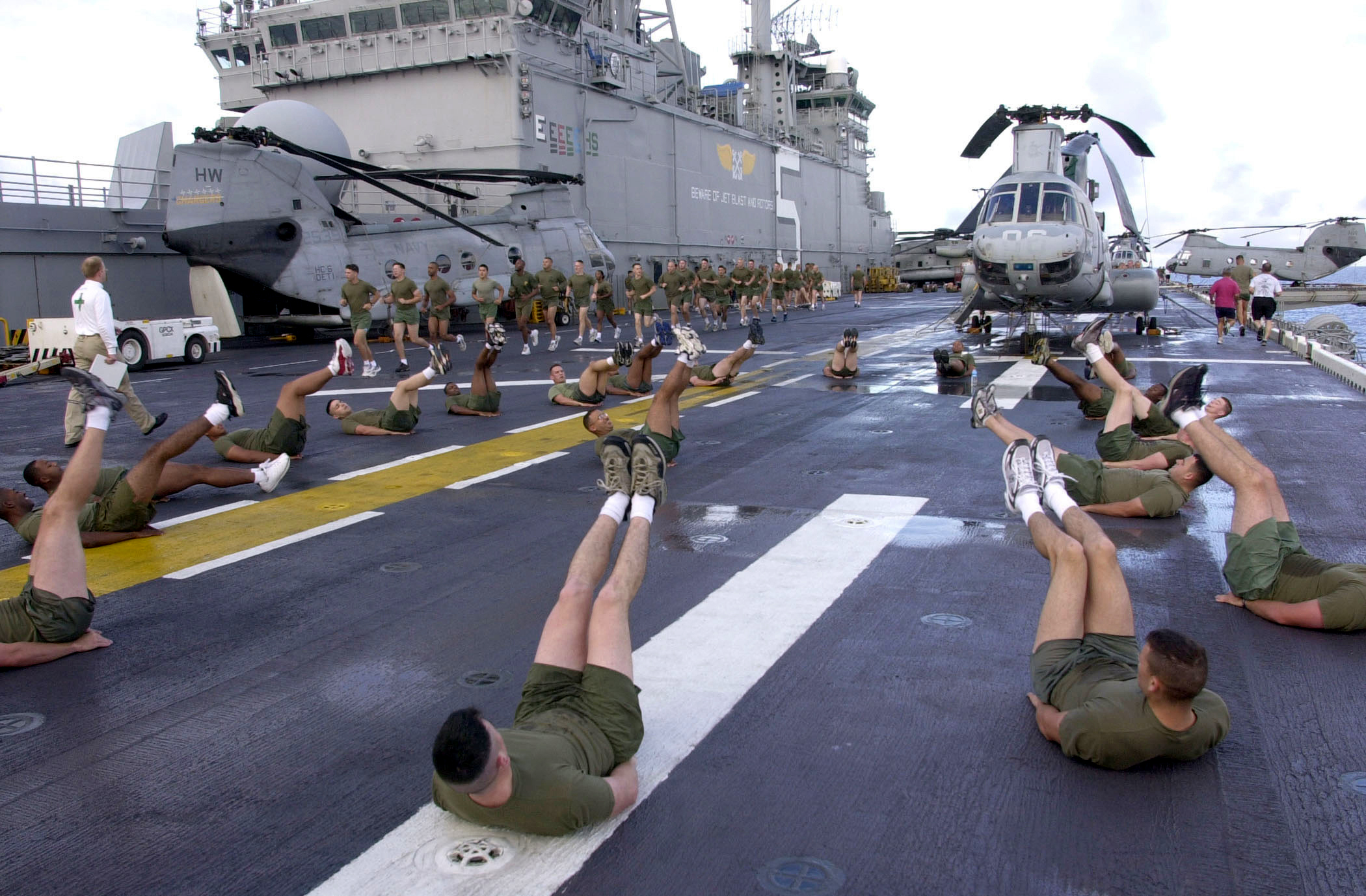 At sea aboard USS Bataan (LHD 5) Sept. 24, 2001 -- U.S. Marines assigned to the 26th Marine Expeditionary Unit (26th MEU) start their morning with group exercises on the flight deck aboard USS Bataan. U.S.Navy photo by Photographer's Mate 2nd Class Christopher M. Staten (RELEASED)